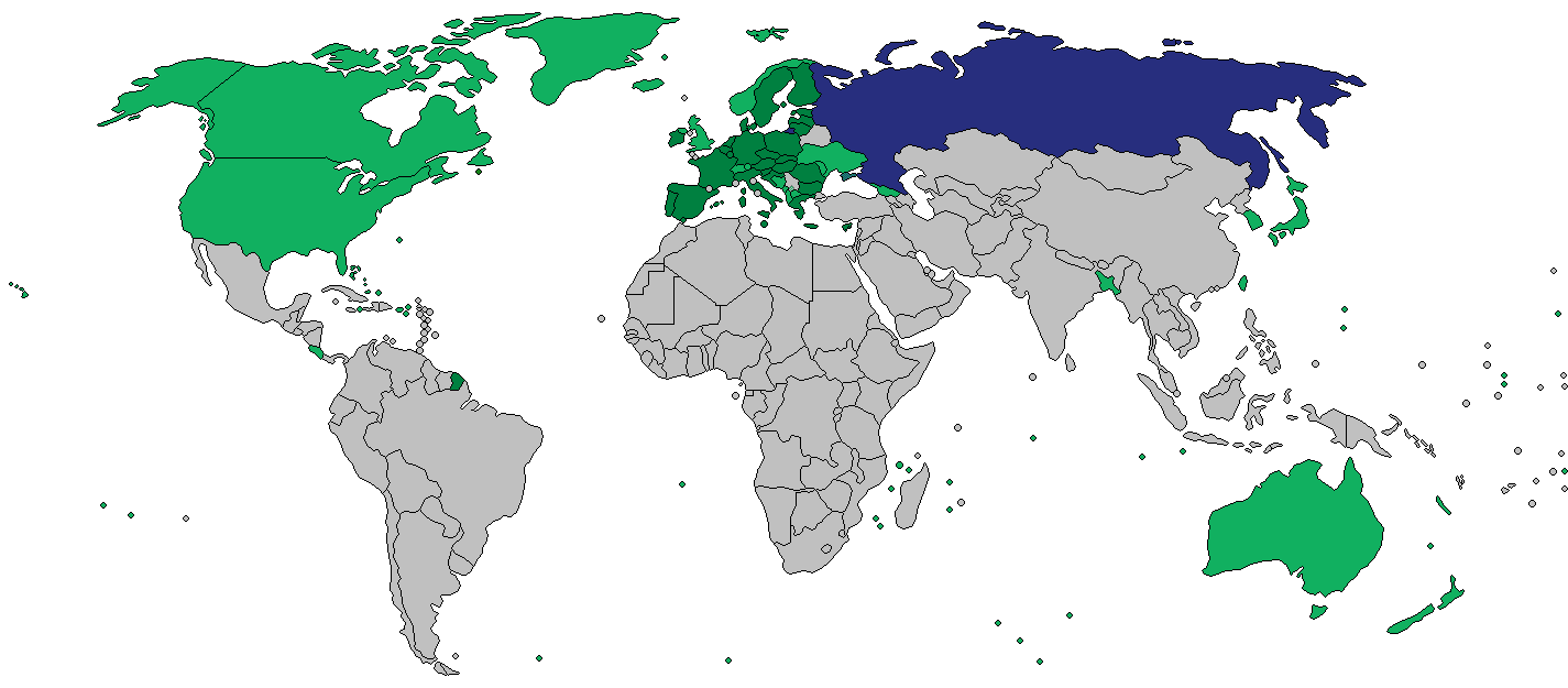 Countries that have introduced sanctions against Russian or Ukrainian citizens or corporations or Russia as whole as a result of its actions against Ukraine. Russia Countries that have introduced sanctions: EU others Note: please do not change the colour scheme of the map without consensus on the talk page. By changing the colors you'll make this map useless in different language editions of Wikipedia (because of the contradictions with the corresponding map legends). Only official government statements are used (of parliamentary, ministerial and ambassadorial level). Official positions of supranational organizations (NATO, EU, etc.) used as positions of the corresponding countries.